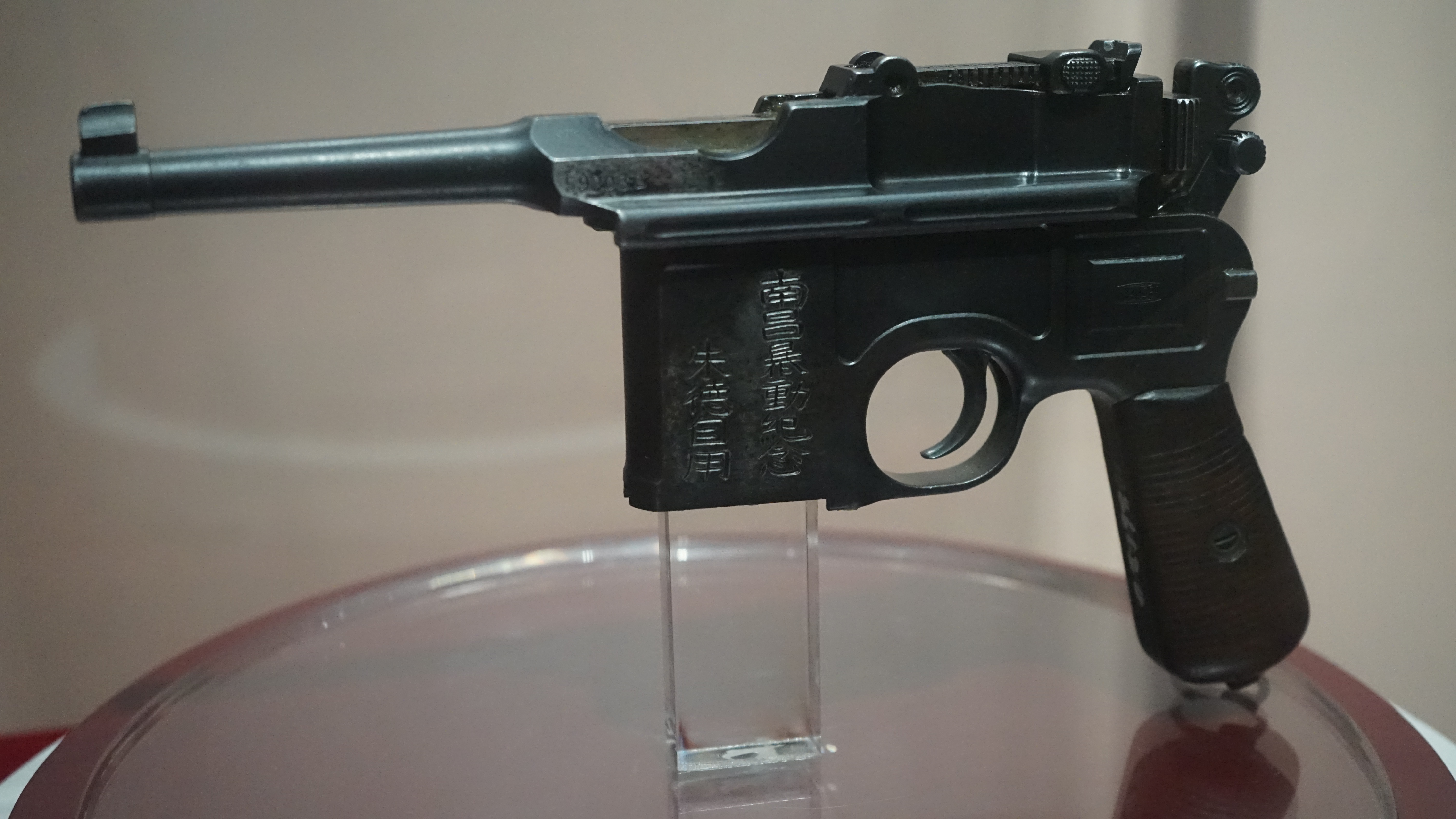 The M1896 pistol Zhu De used during the Nanchang Uprising. First Grade Cultural Relic.